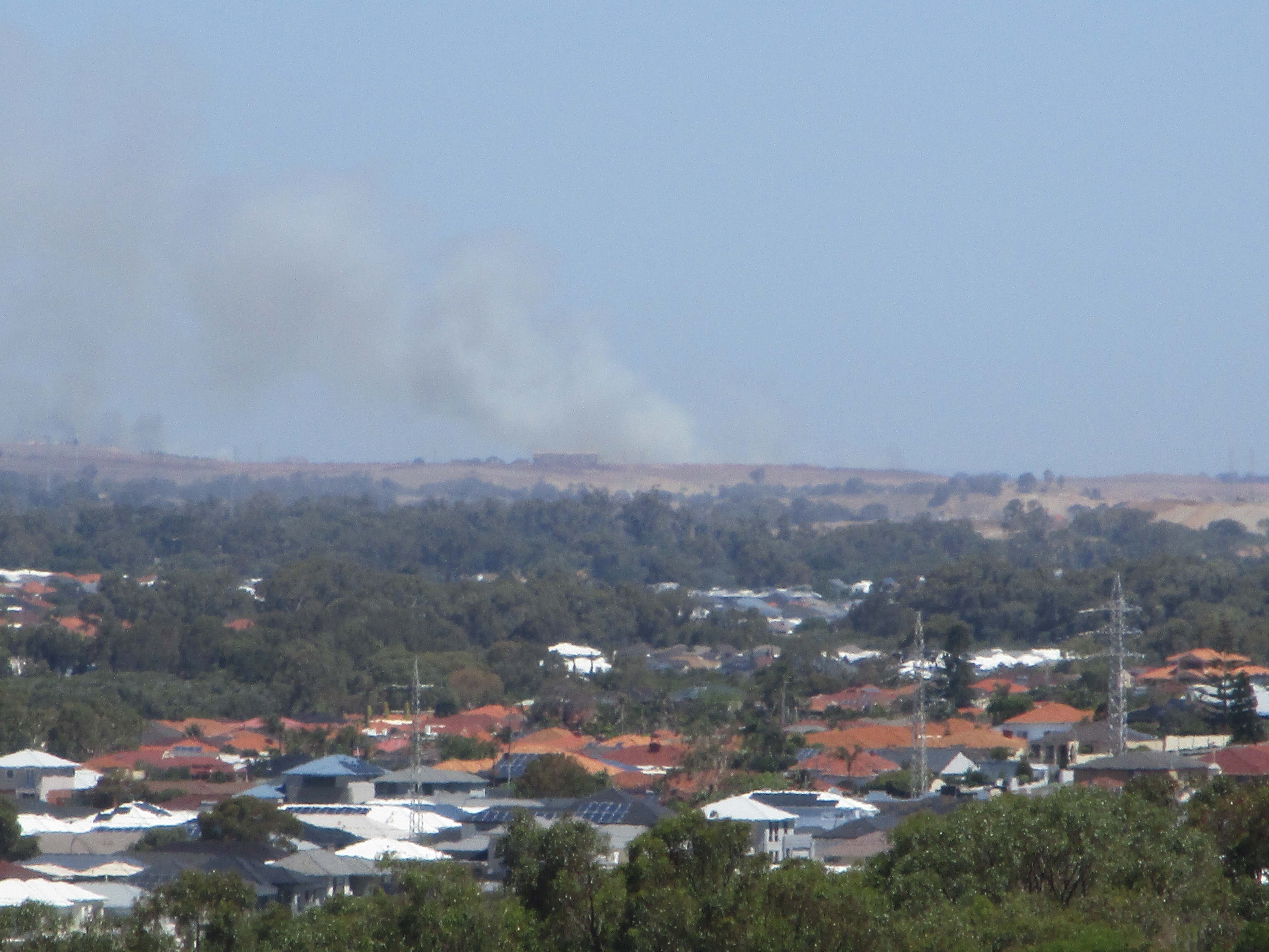 Bushfire in Perth's southern suburbs, seen from Manning Park lookout, Western Australia.